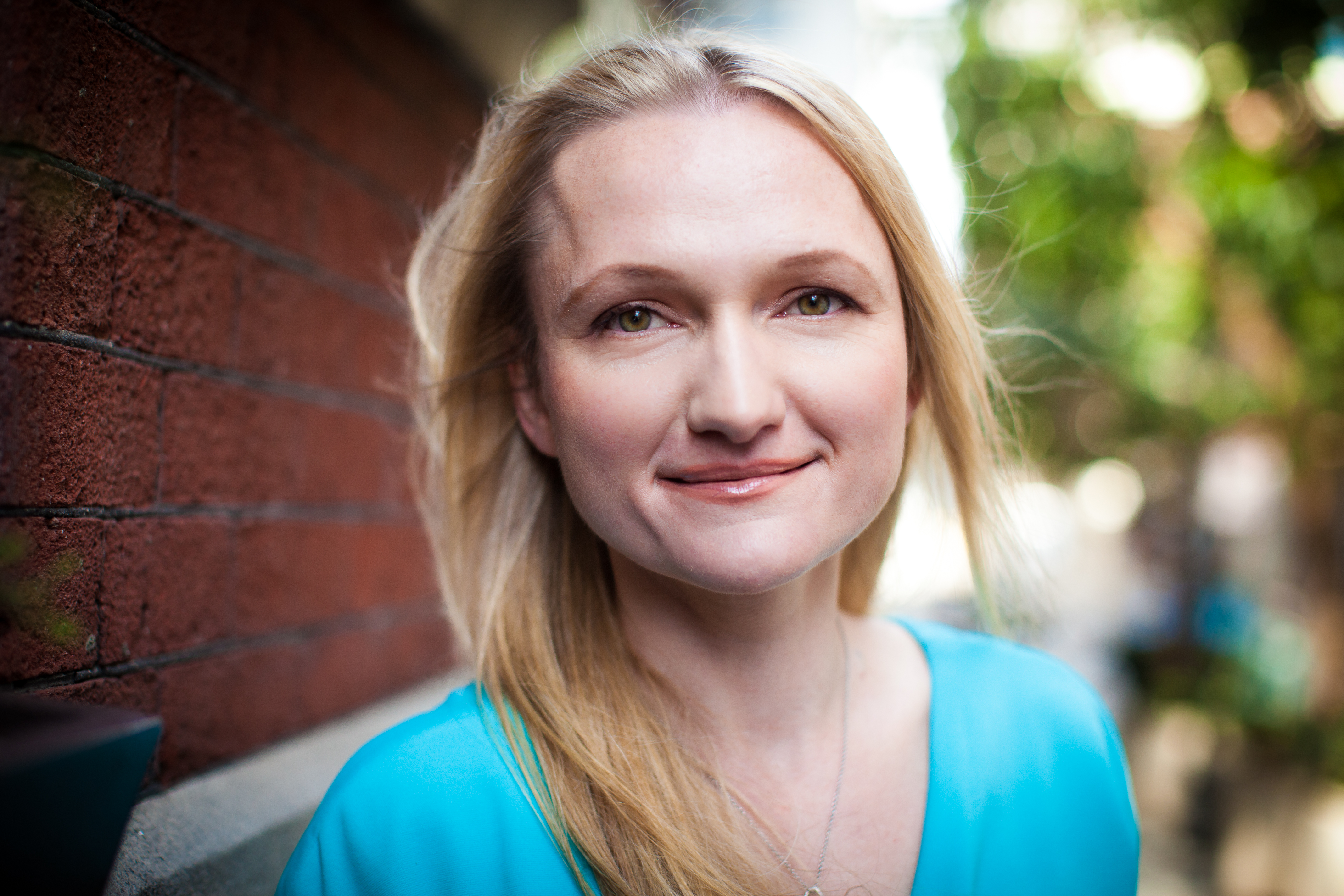 Photo of incoming WMF Executive Director Lila Tretikov.